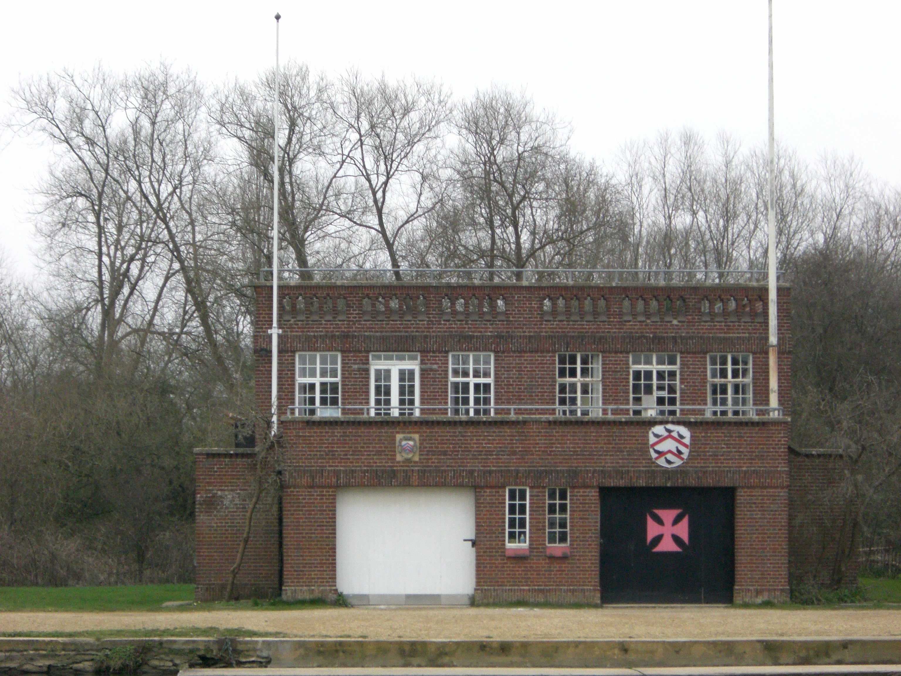 Boathouse on the River Thames, just south of Folly Bridge in Oxford. Used by (from left to right) an unidentified college, possibly Merton, and Worcester College.